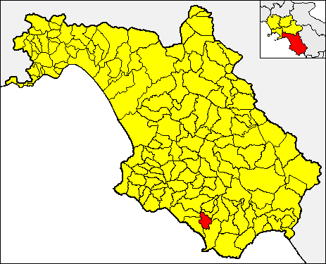 Locator map of the municipality of San Mauro la Bruca (red) within the Province of Salerno